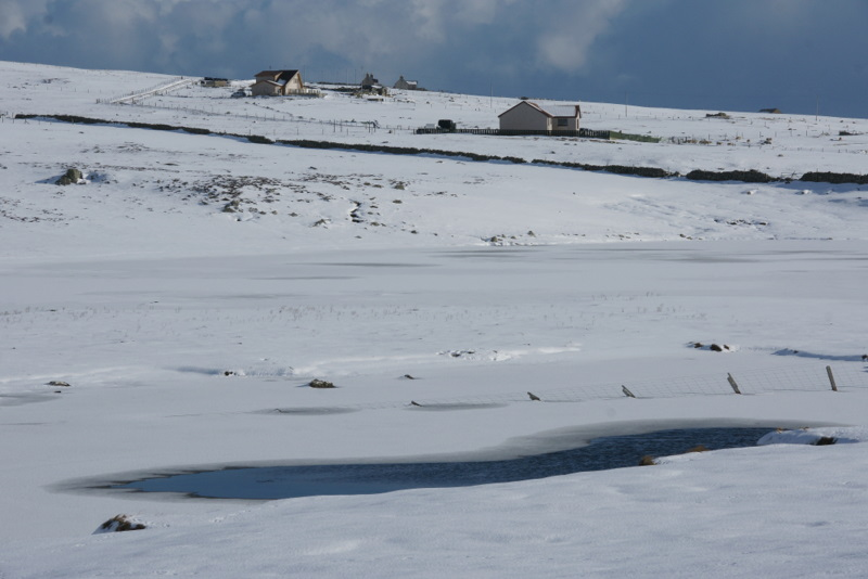 Dam Loch, Uyeasound, in the snow Looking towards the houses along the Mailland road, the loch is almost invisible under the snow and ice.